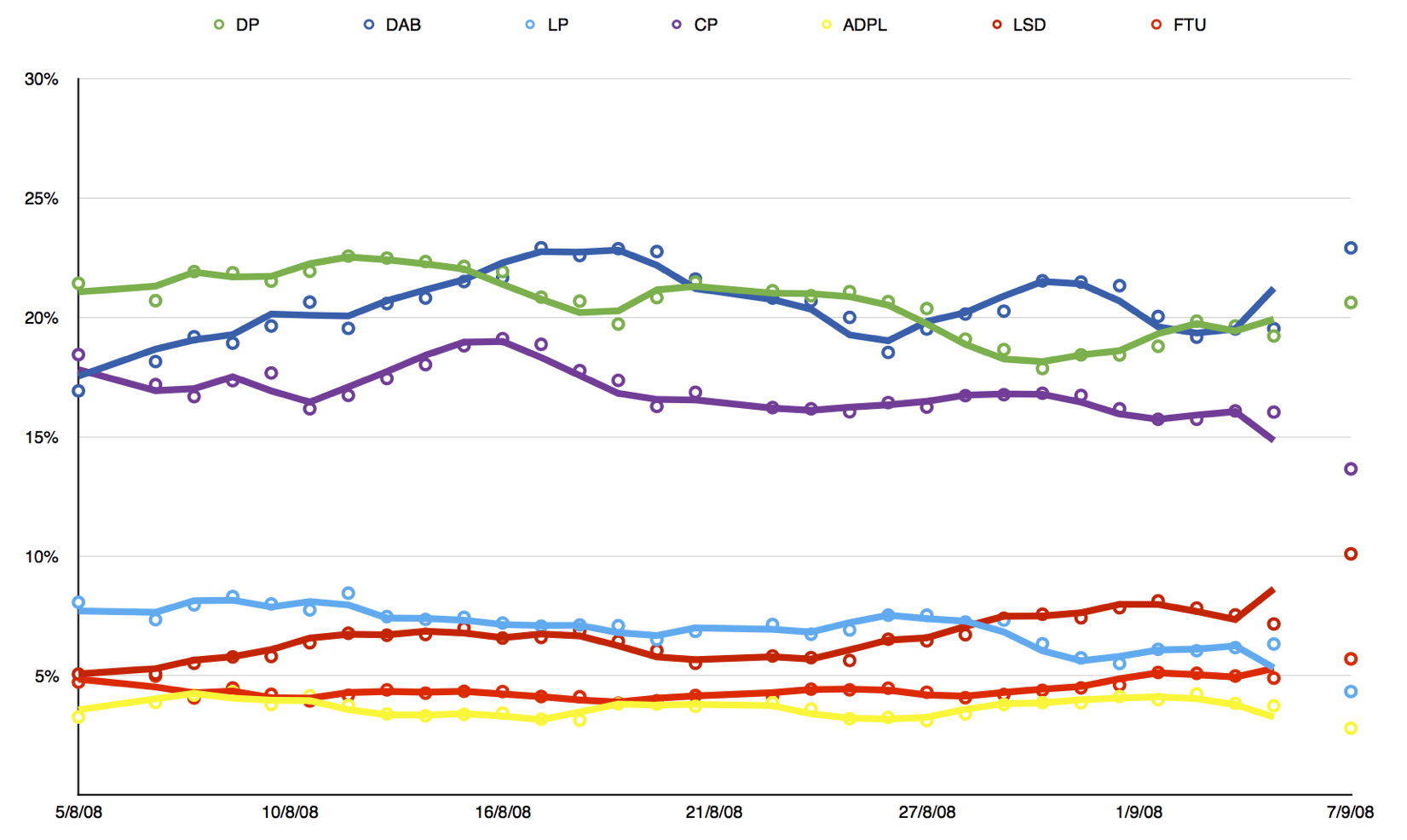 Graph of polling leading up to the Hong Kong legislative election, 2008.